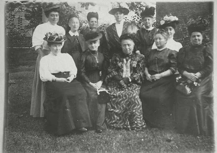 Description: The Weibliche Fuersorge (Care for Women Society) was founded by Bertha Pappenheim in 1902. First board portrait includes Henriette Fuerth (Katzenstein), Henny Elkan, Sidorie Dann and Mrs. Epstein Creator/Photographer: Unknown Medium: Black and white photographic print Date: 1904 Repository: Leo Baeck Institute, 15 West 16th Street, New York, NY 10011 Call Number: F 3240 Rights Information: No known copyright restrictions; may be subject to third party rights. For more copyright information, click here. See more information about this image and others at CJH Archives and Library Catalog. Digital images created by the Gruss Lipper Digital Laboratory at the Center for Jewish History